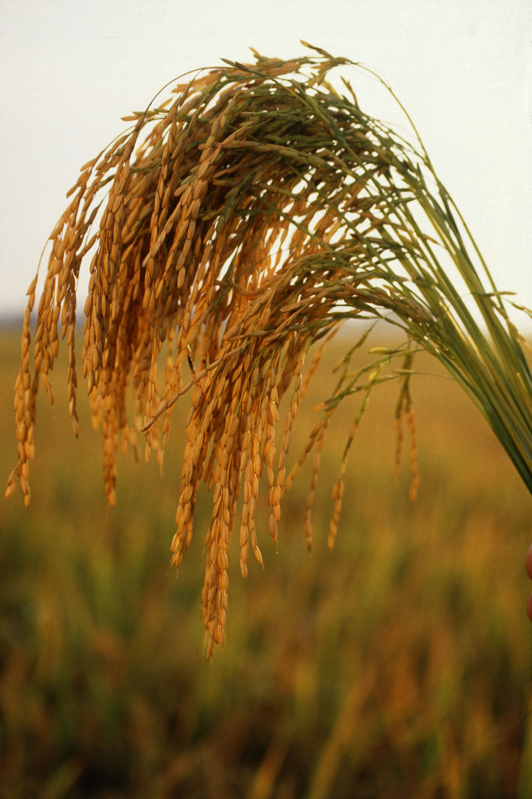 Long grain rice from the United States